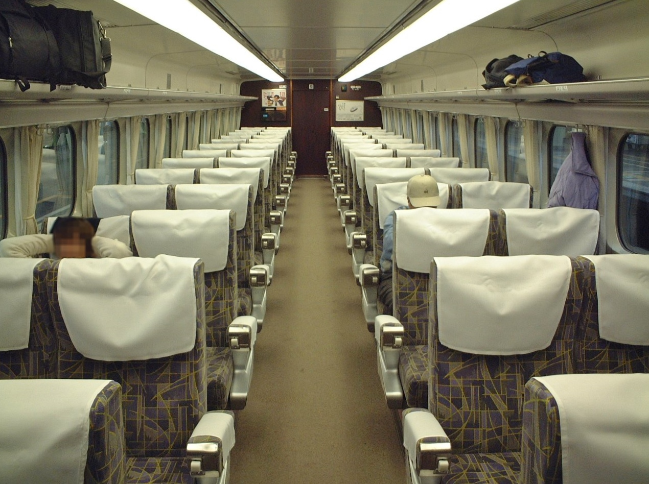 Interior of a 200 series shinkansen F set green car, taken at Niigata